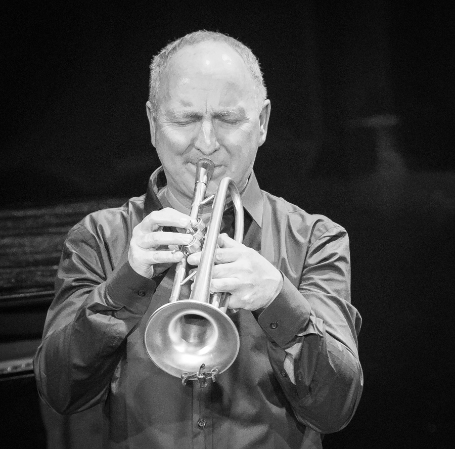 Jan Magne Førde with James Morrisson and Brazz Brothers at Chat Noir. The concert was part of Oslo Jazzfestival and took place on 19. August 2017 in Oslo. Lineup: James Morrisson (trumpet), Helge Førde (trombone), Jan Magne Førde (trumpet), Runar Tafjord (horn), Stein Erik Tafjord (tuba), Kenneth Ekornes (drums) and Kåre Nymark jr (trumpet).